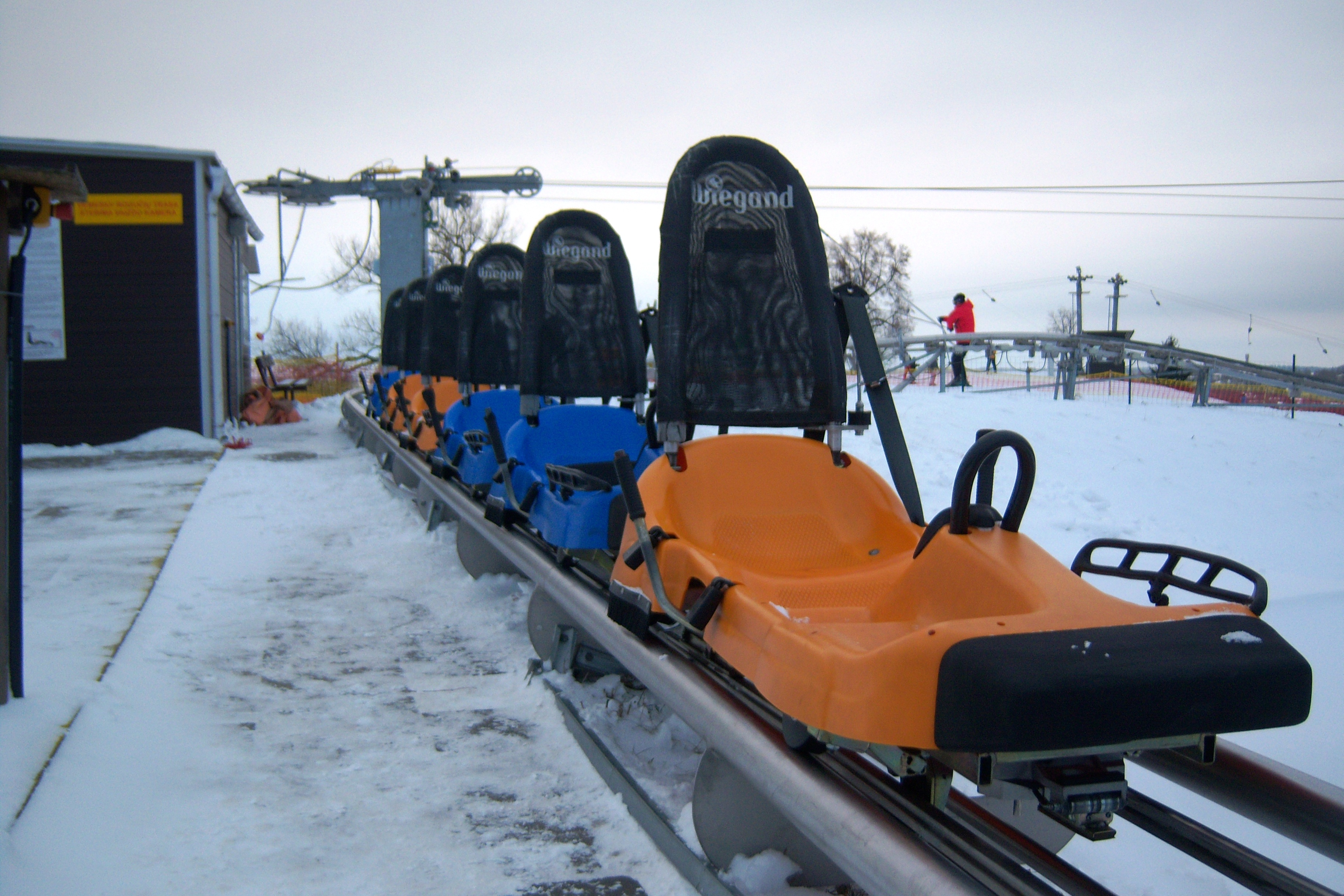 Summer and winter sleds, Kalita, Anykščiai, Lithuania